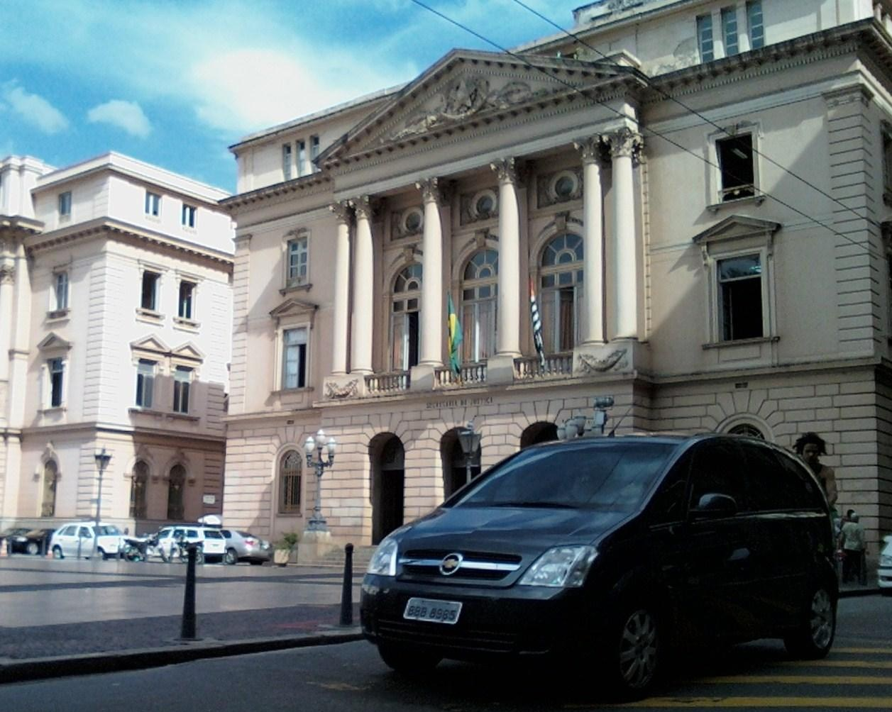 Secretaria de justiça in São Paulo, Brazil